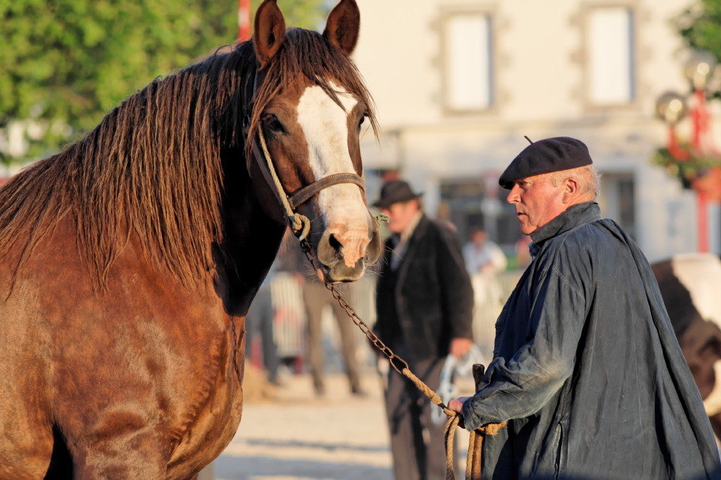 Breton horse. Recreation of the horse market in Landivisiau(France)